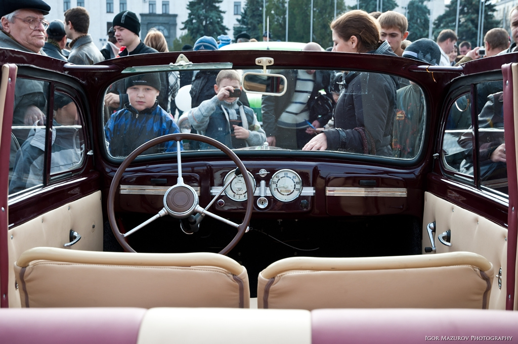 Moskvich 400 Convertible